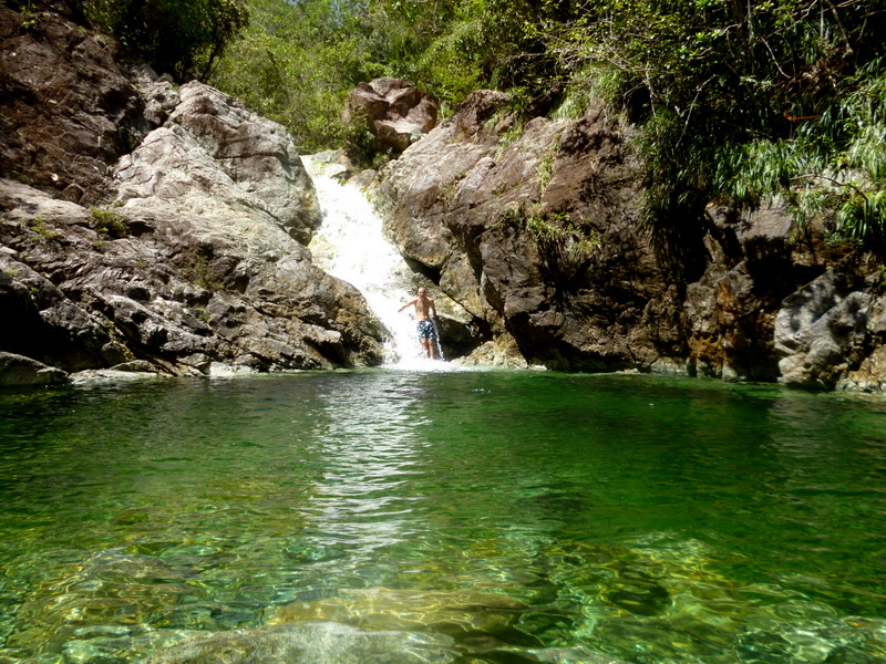 Waterfalls in the natural park El Campismo a Baracoa